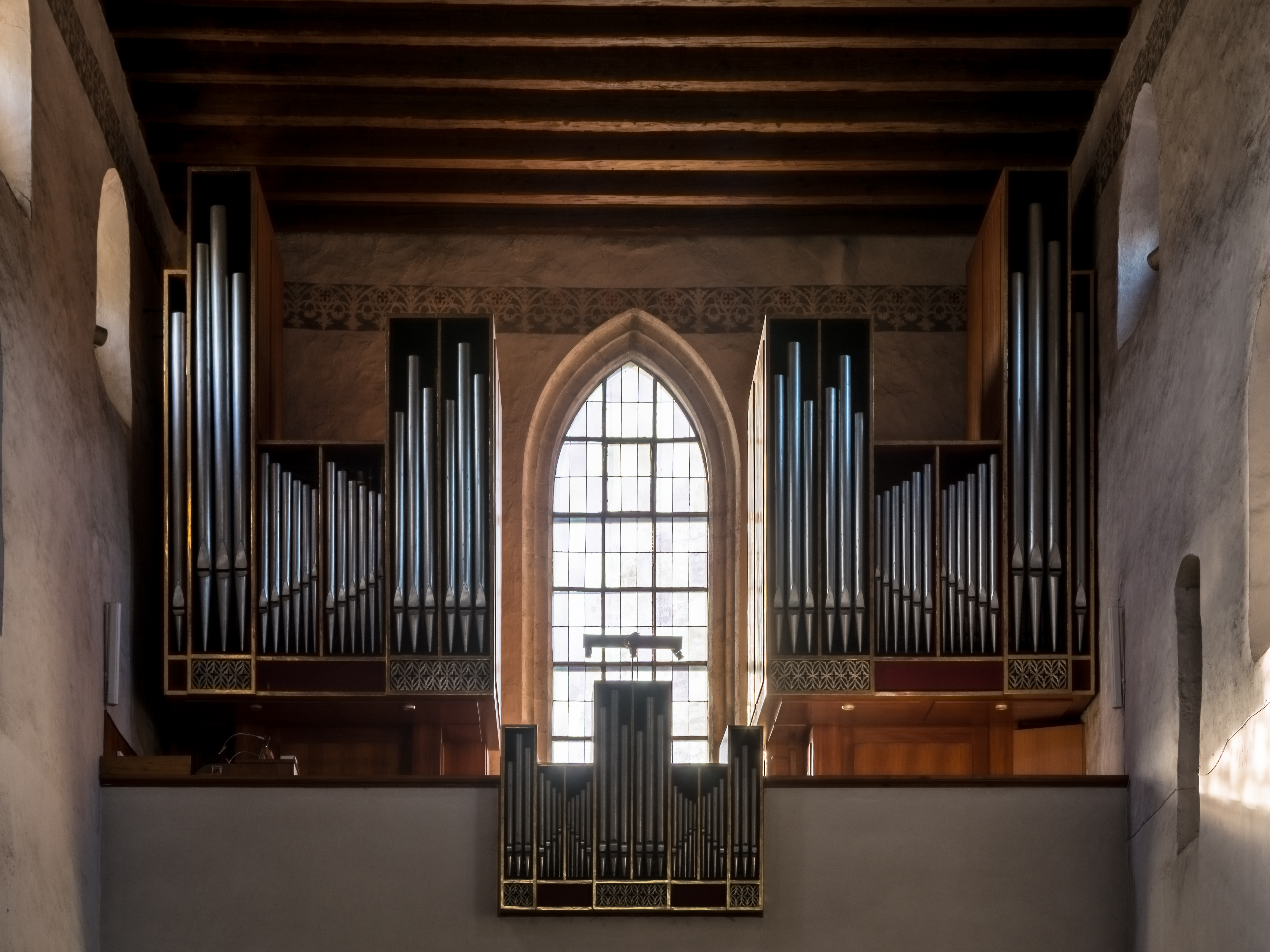 Pipe organ of the parish church Langenlois, Lower Austria